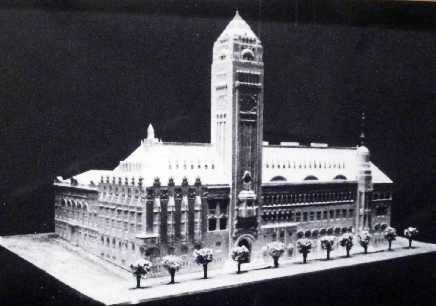 Usko Nyström, Vyborg town hall, architectural model (1899) Other information Some surface scratches photoshopped from the scanned photo